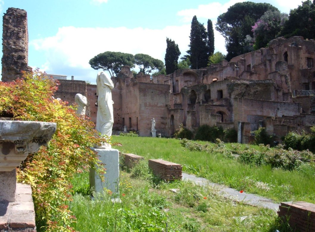 House of the Vestal Virgins on the Forum Romanum in Rome. May 2005. See also